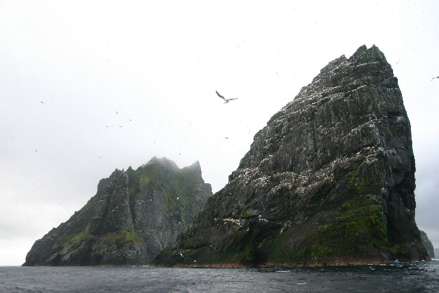 Stac an Armin